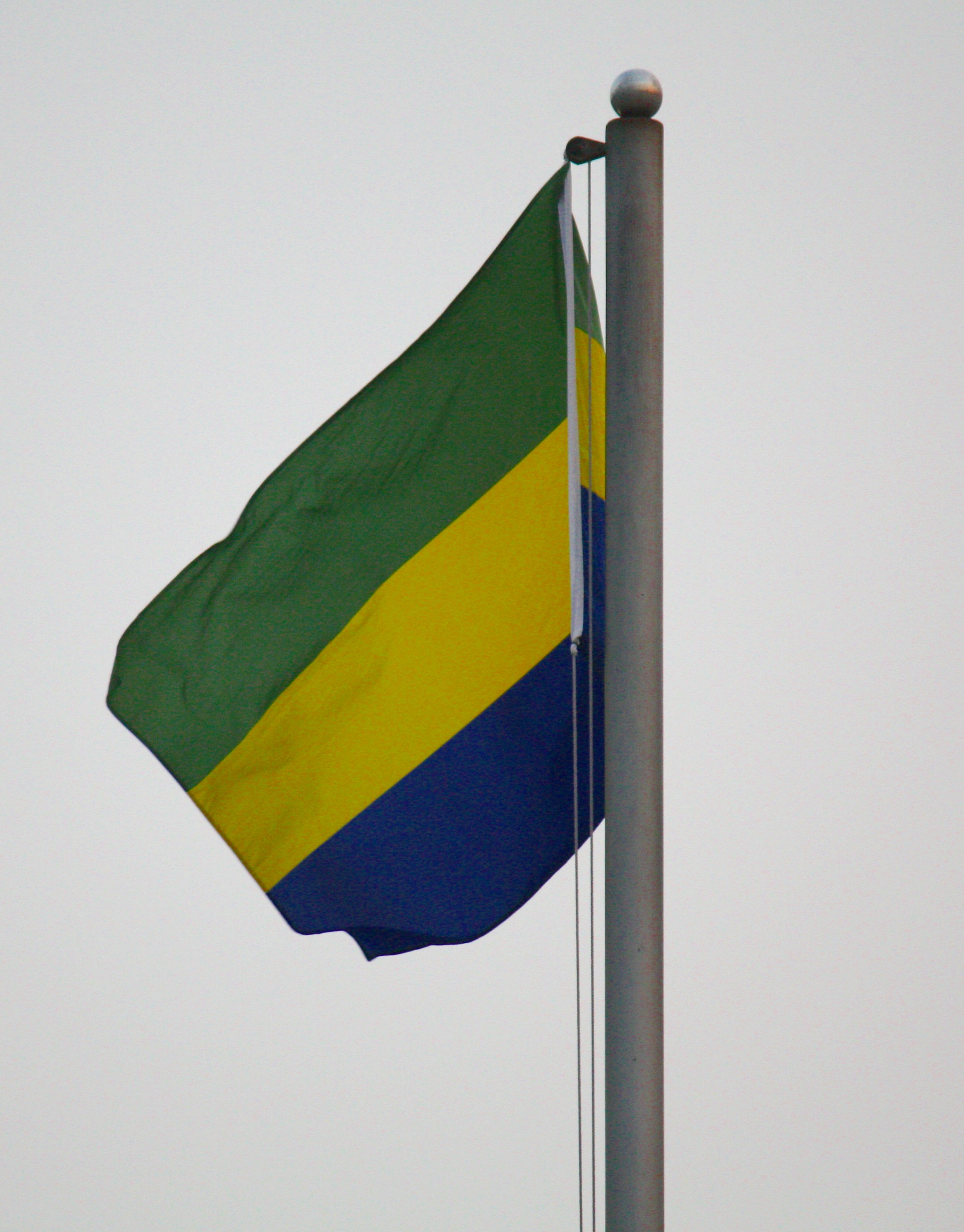 Flag of Gabon in Shenzhen